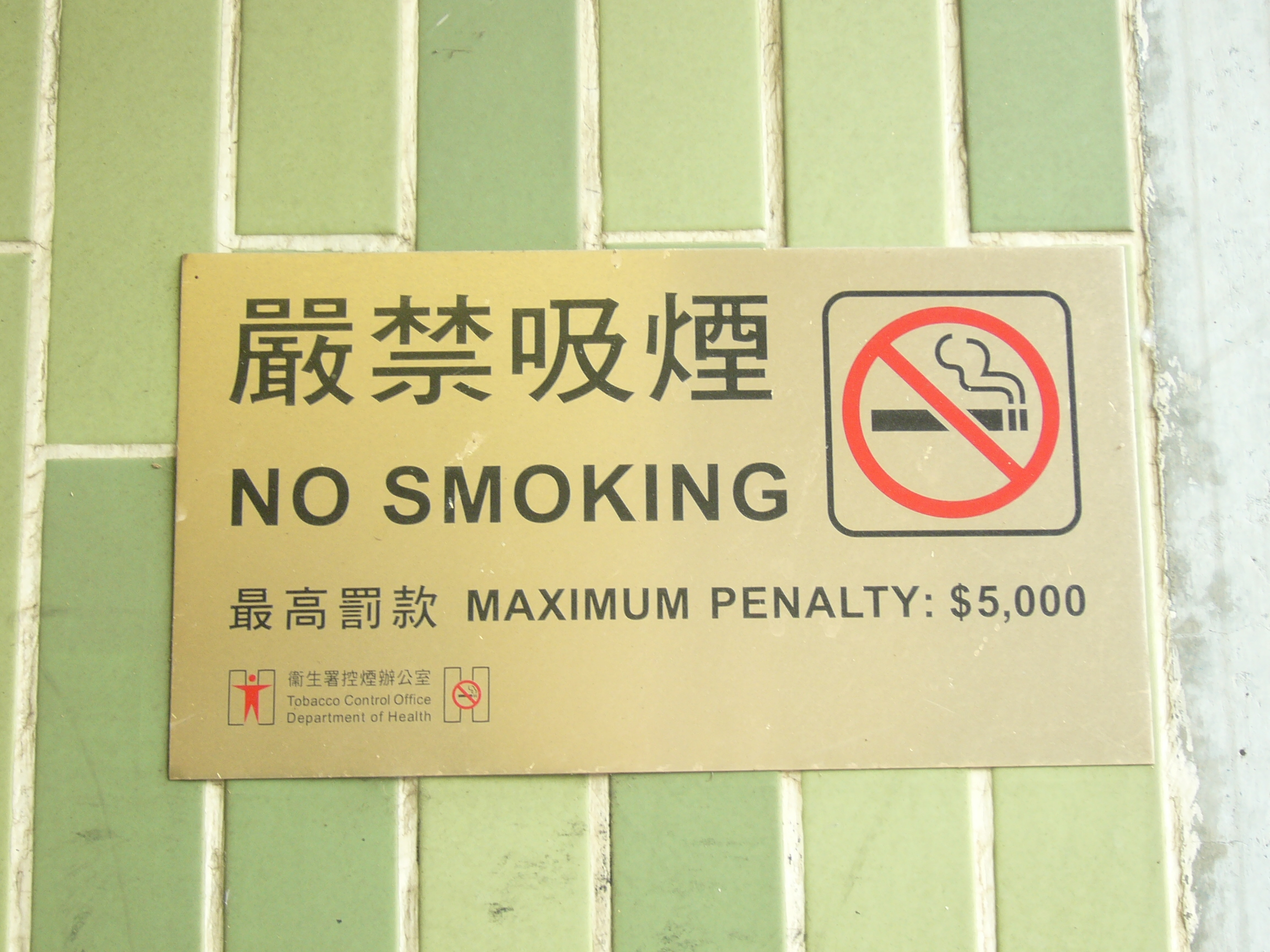 HKG will charge $5000 for smoking before.